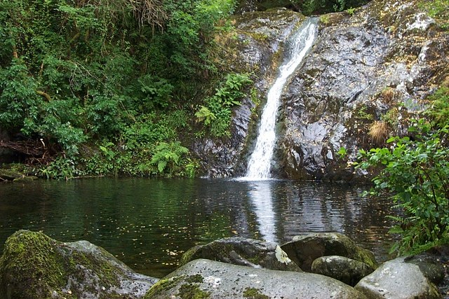 Waterfall near Rowlyn Isa above Tal y Bont. This waterfall can be reached by means of a path off the minor road from Tal y Bont to Llyn Coedty Reservoir and is at location SH 75630 68294.